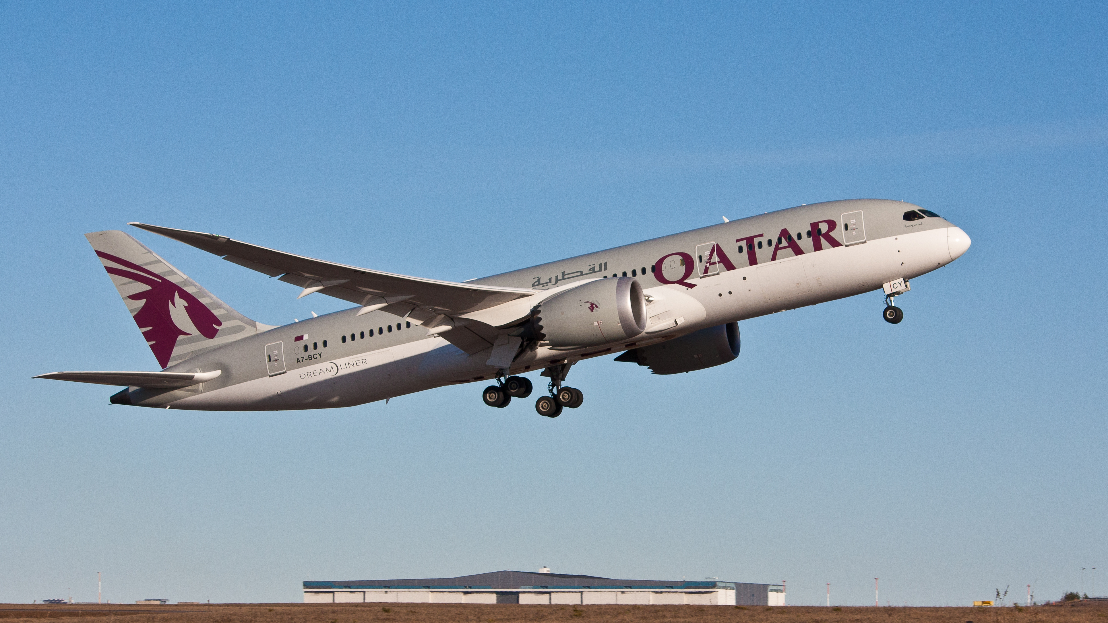 Qatar Airways Boeing 787-8 Dreamliner, A7-BCY, flight QR302 (HEL-DOH) departure from runway 22R at Helsinki-Vantaa Airport (EFHK/HEL)